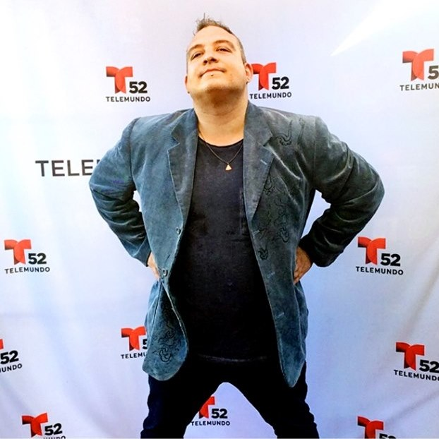 Jose Riaza en Los Angeles, California, The Fall Tour 2019.